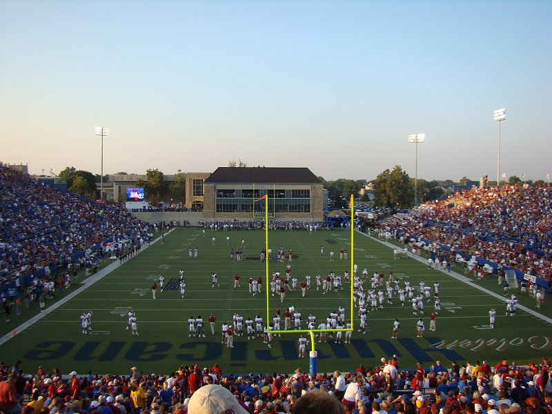 The Oklahoma Sooners take on the Tulsa Golden Hurricane on September 21, 2007.